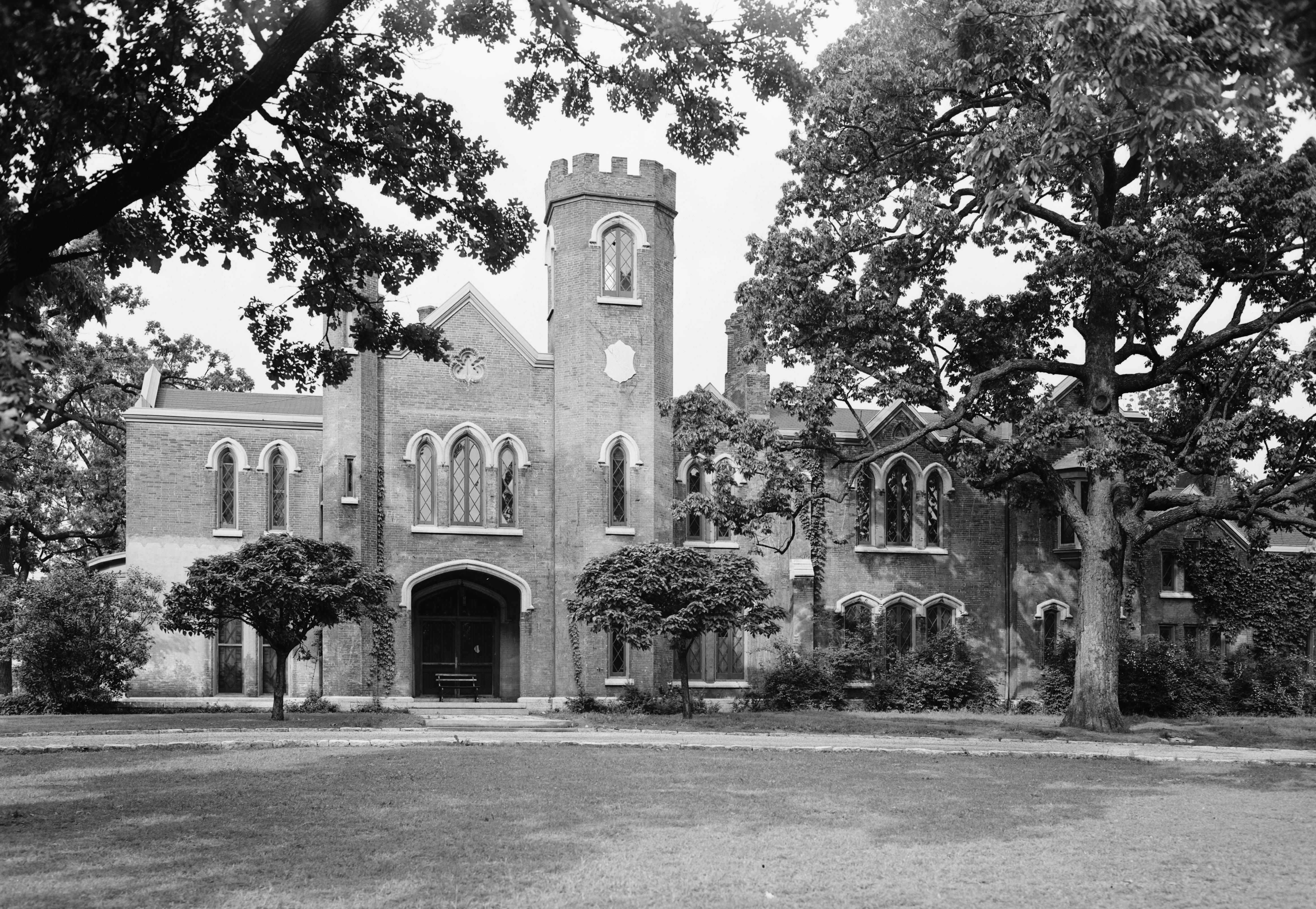 Front of Loudoun House, located on the corner of Bryan Avenue and Castlewood Drive in Lexington, Kentucky, United States. Built in 1851, it is listed on the National Register of Historic Places.